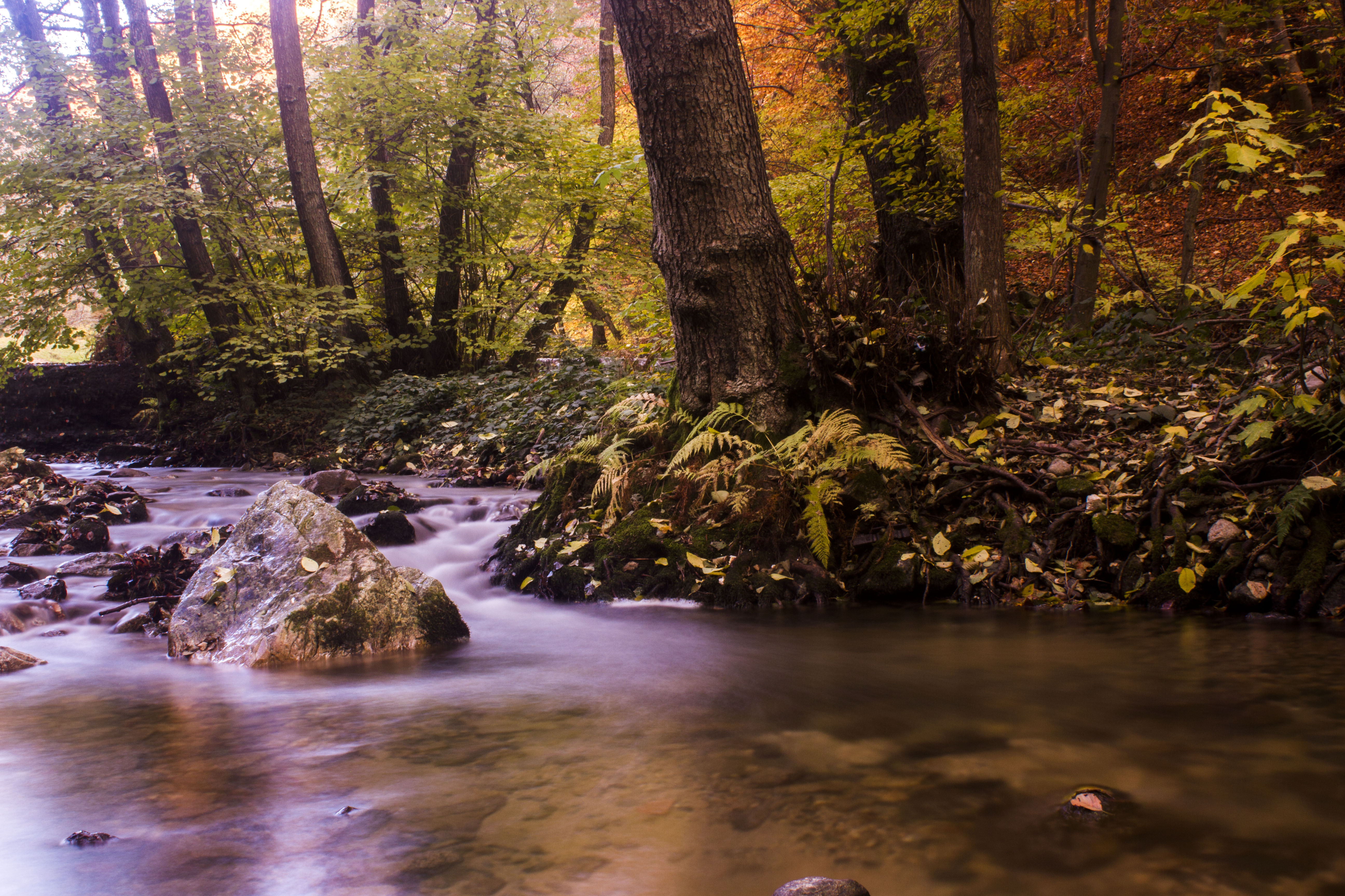 The river takes its source from the central parts of Stara Planina north of Kalofer. The Tundzha river's length on Bulgarian territory is 350 km.